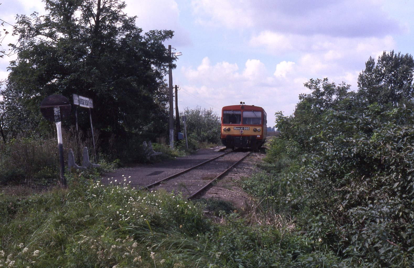 Classic rural branch line terminus. Very close to the Romanian border, in fact the line did continue to Oradea but is very unlikely to re-open. I had about 45 minutes and so took a walk through the village which was largely badly made roads. When I got back, the train crew were both asleep and remember having to gently wake them up as we had gone past the booked departure time!